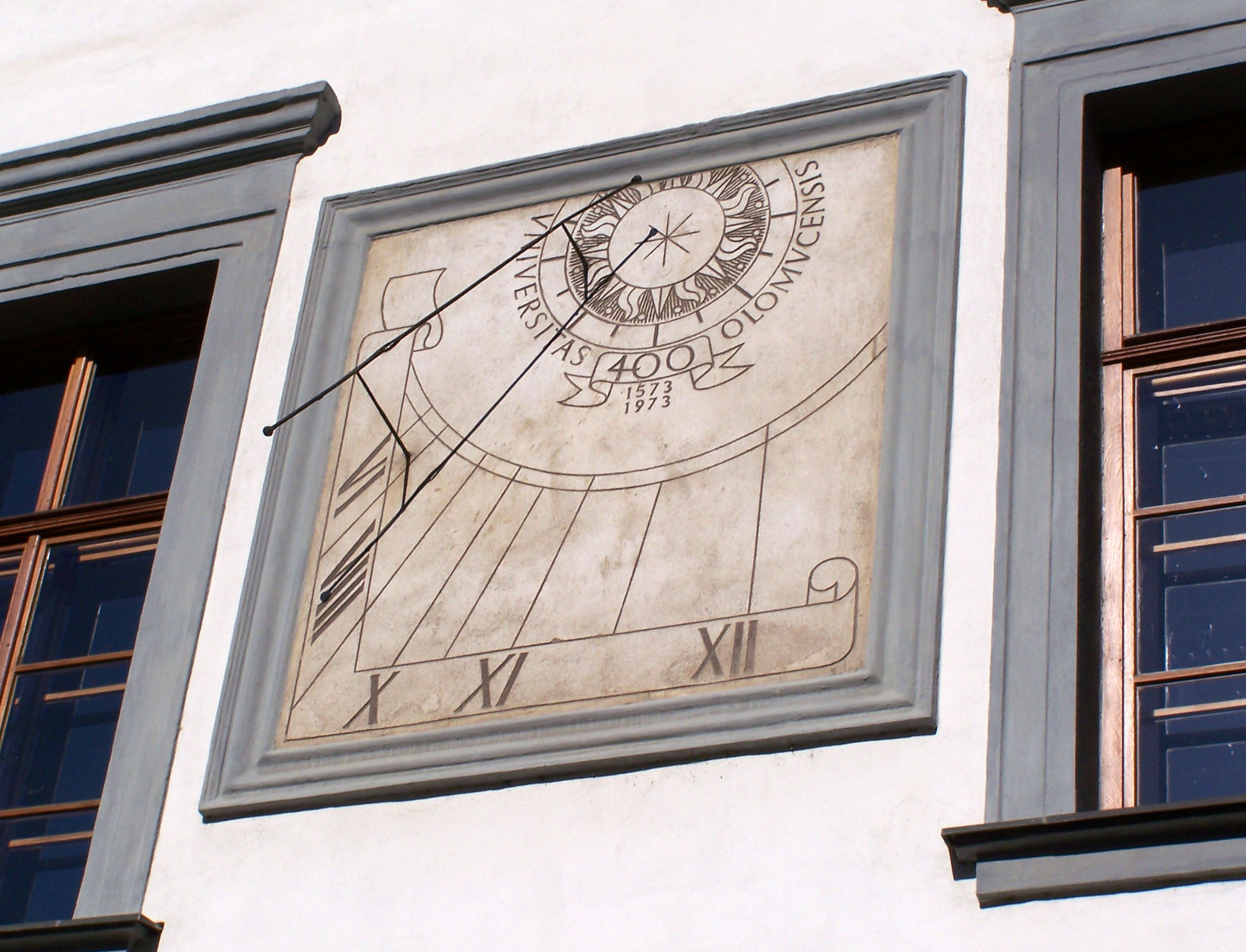 Solar clock at the Palacký University in Olomouc, Czech Republic